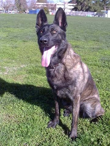 Two year old purebred female Dutch Shepherd "Kenja", BH, owned by Eric Nelson.